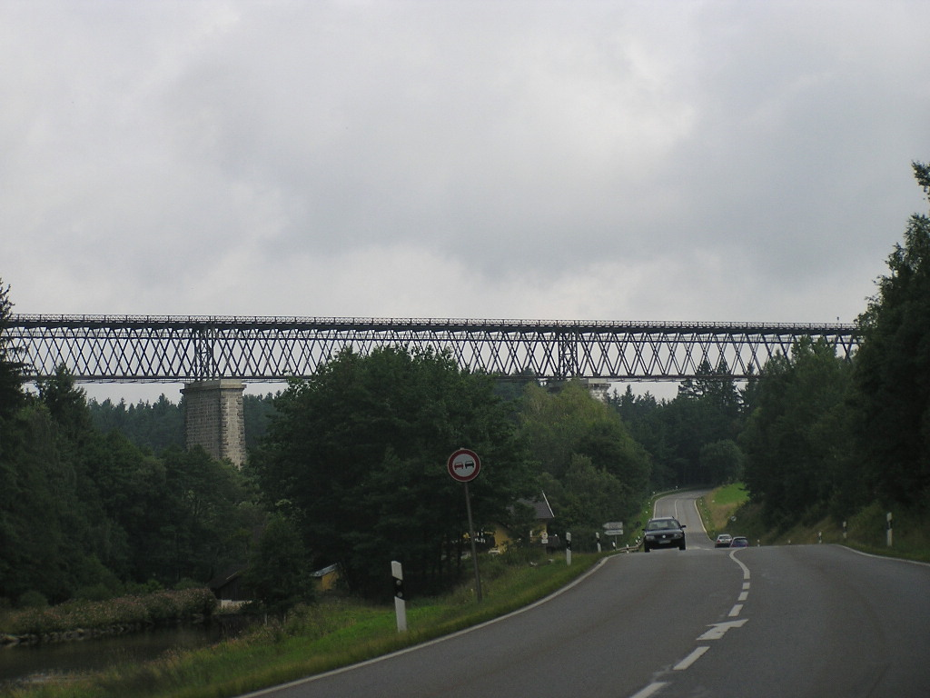 Bridge of the “Regentalbahn” over the “Ohe” near Regen